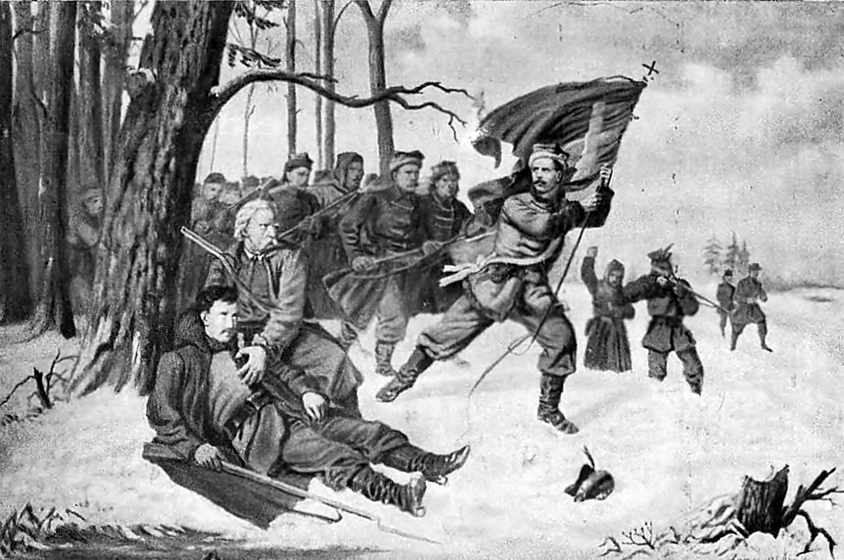 Walenty Lewandowski in Podlasie during January Uprising